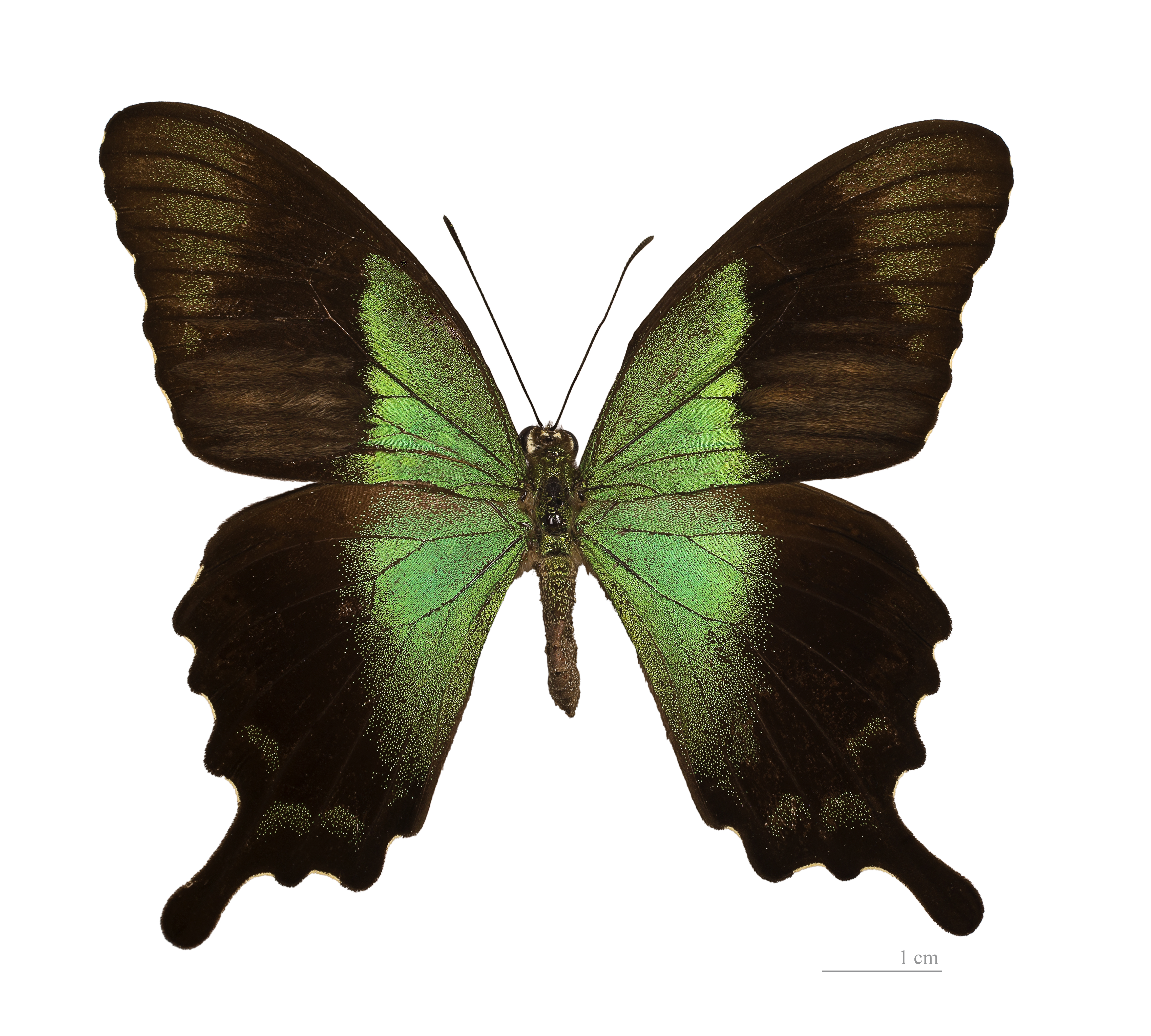 Dorsal side